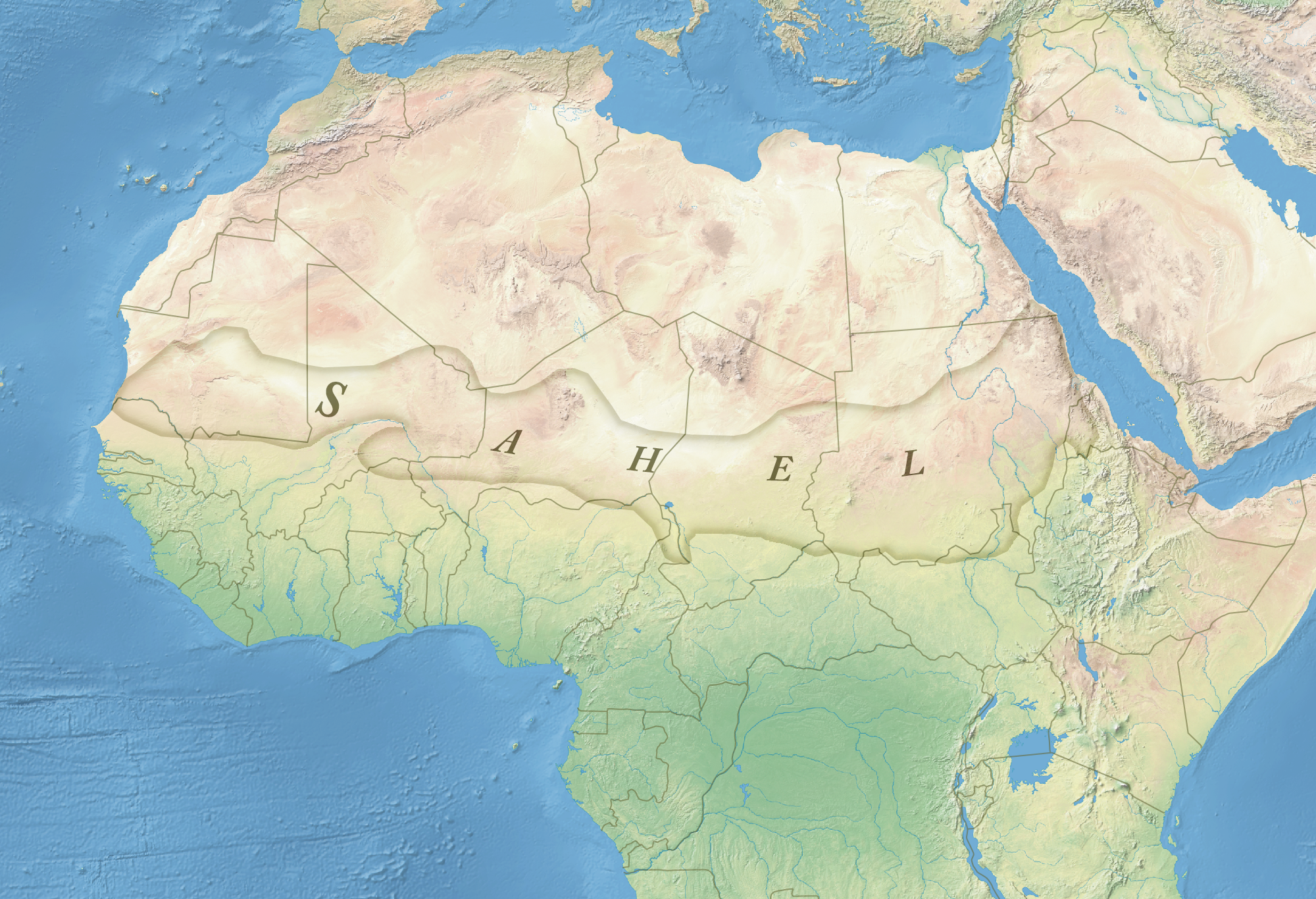 This is a map illustrating the Sahel region of Africa. Derived from Natural Earth data. Projection: Lambert Conformal Conic, CM: 14E, SP: 10N, 25N